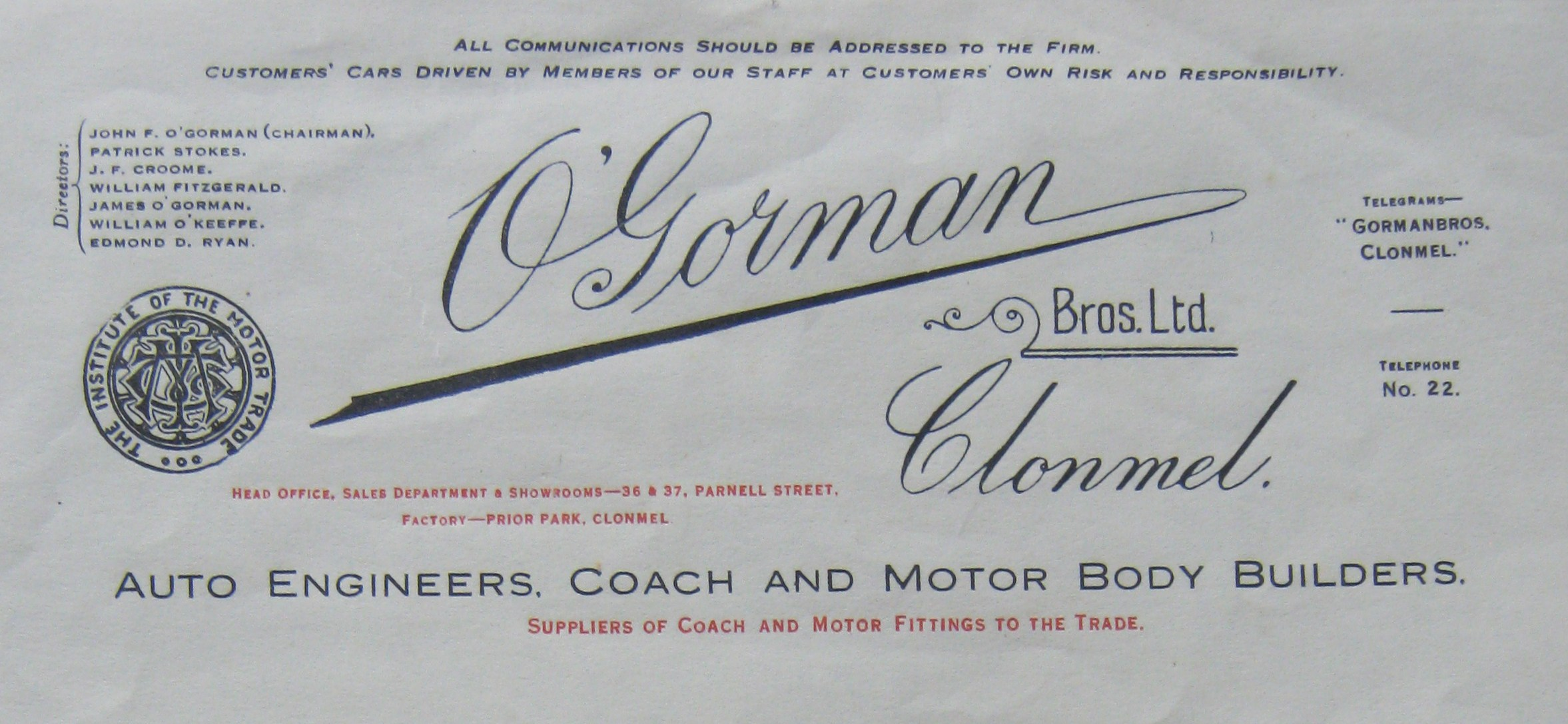 Later traded as J.F.O'Gorman (1933) Ltd